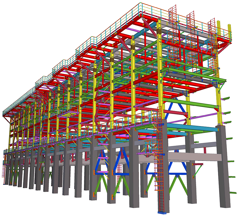 Tekla Structures project